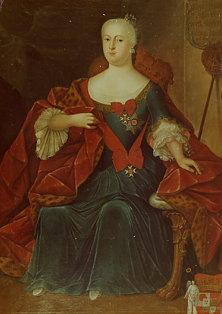 Portrait of Elisabeth Henriette of Lippe (1721-1793)